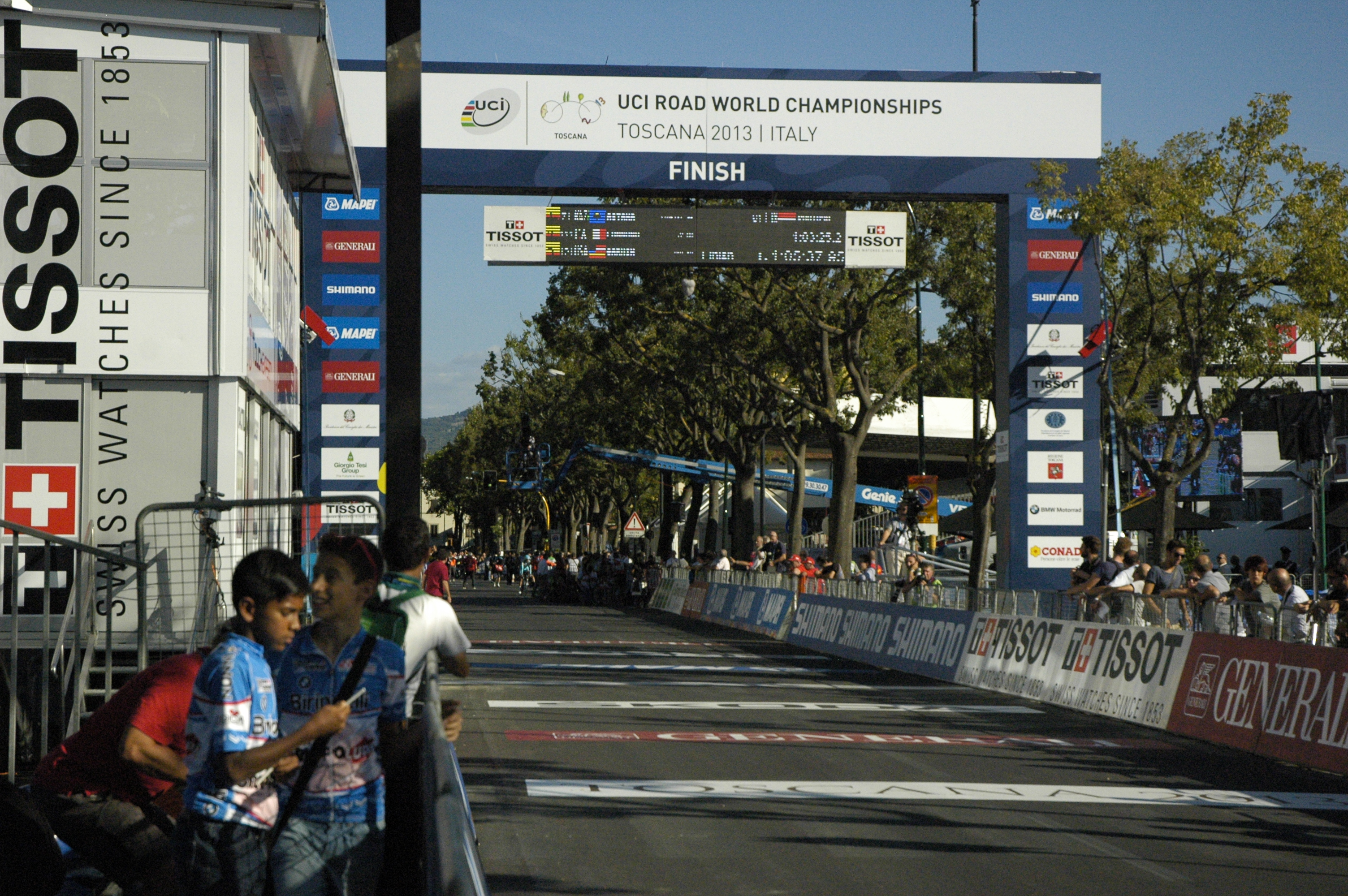 Finish of the 2013 UCI Road World Championships